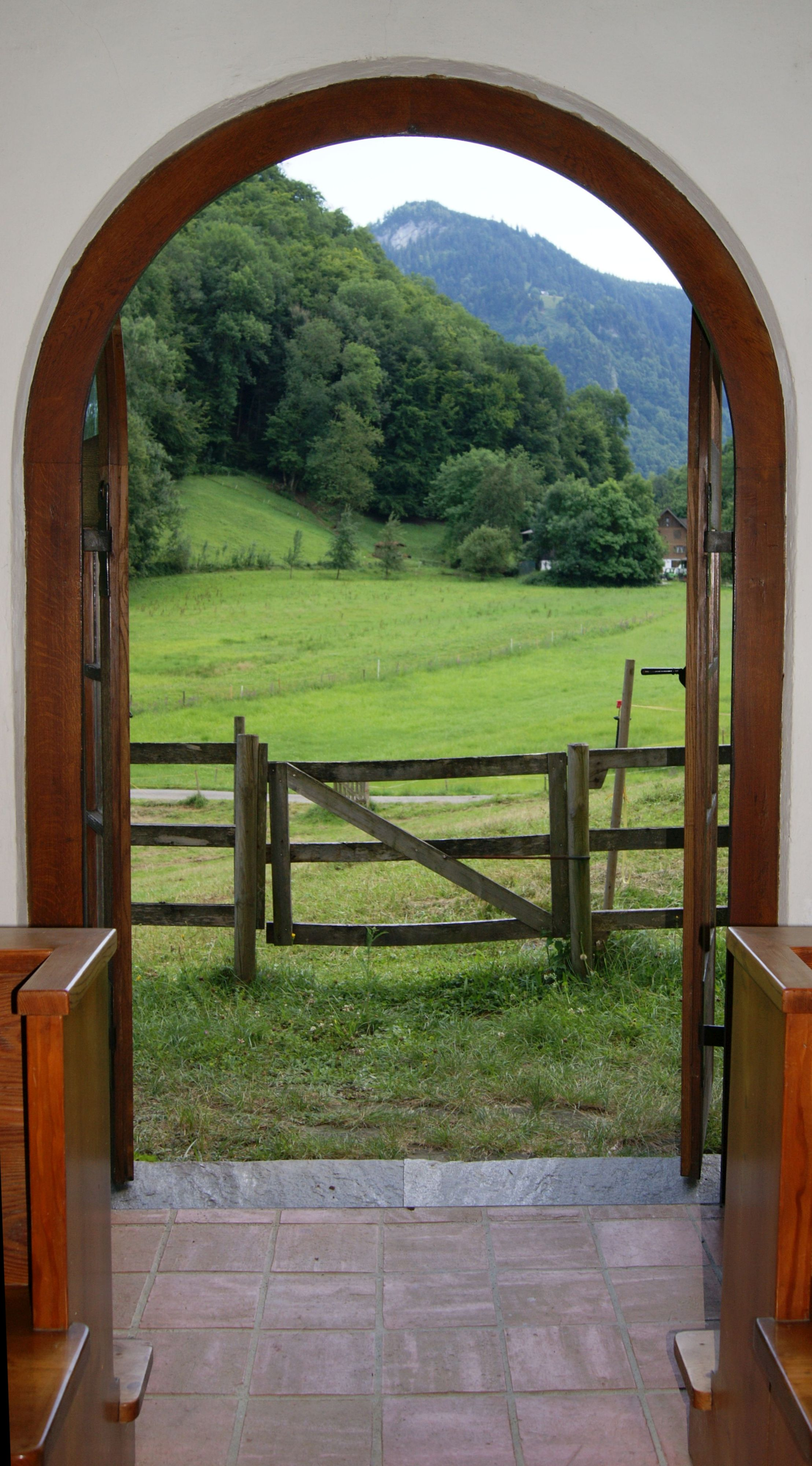 View outside of the Chapel St. Mary in Buggenau, Hohenems, Vorarlberg, [Austria .